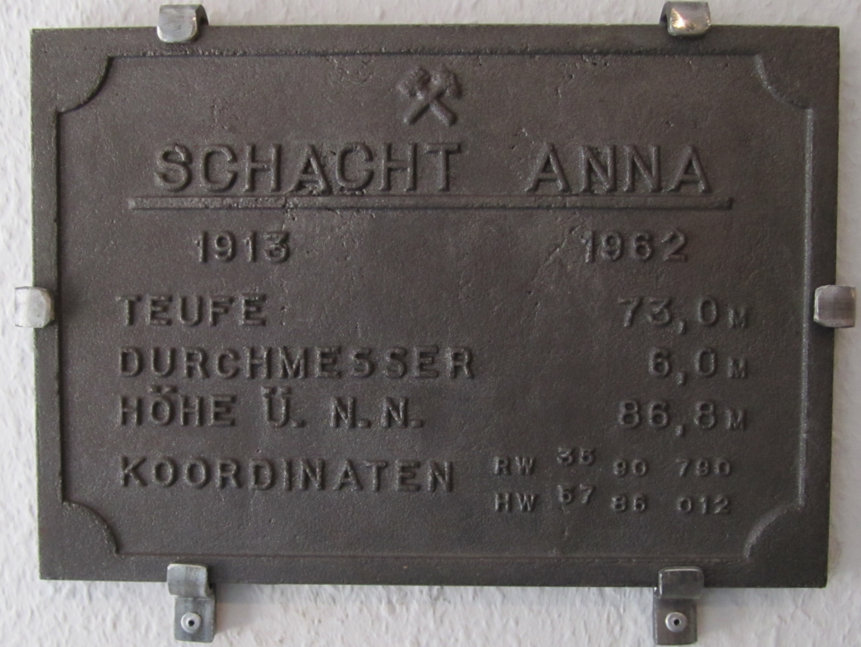 Plate with latitude, longitude (Gauß-Krüger, Potsdam date) and elevation above sea level from Shaft Anna, Lengede-Broistedt Iron-Ore Mine, Lower Saxony, Germany